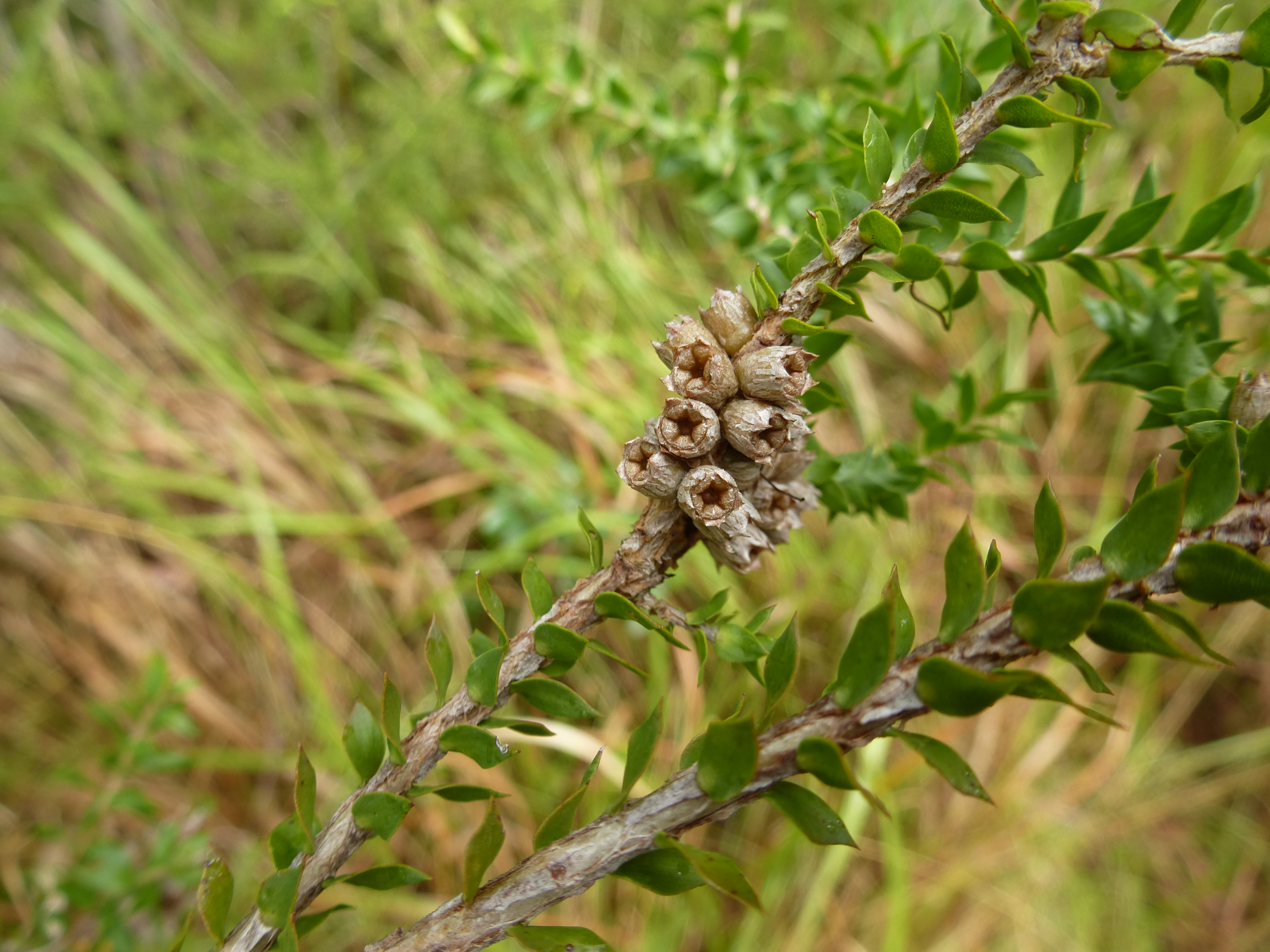 Fruits